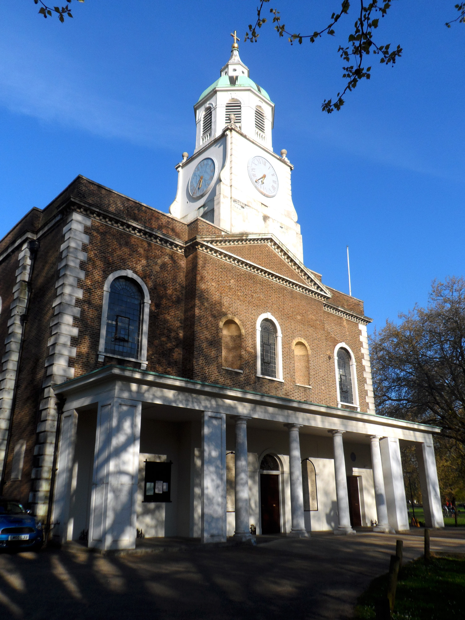 West front of Holy Trinity parish church, Clapham Common, London SW4